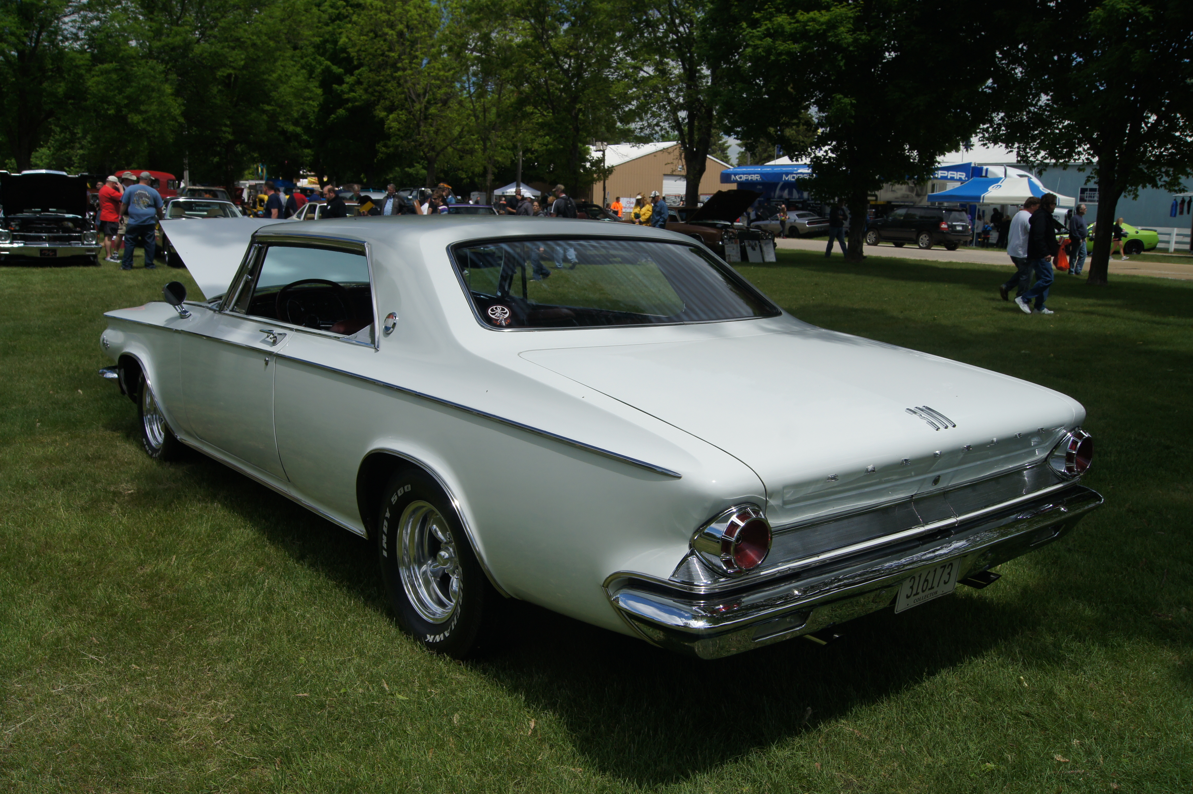 Midwest Mopars in the Park National Car Show & Swap Meet Dakota County Fairgrounds Farmington, Minnesota May 30 & 31, 2015 Click here for more car pictures at my Flickr site.